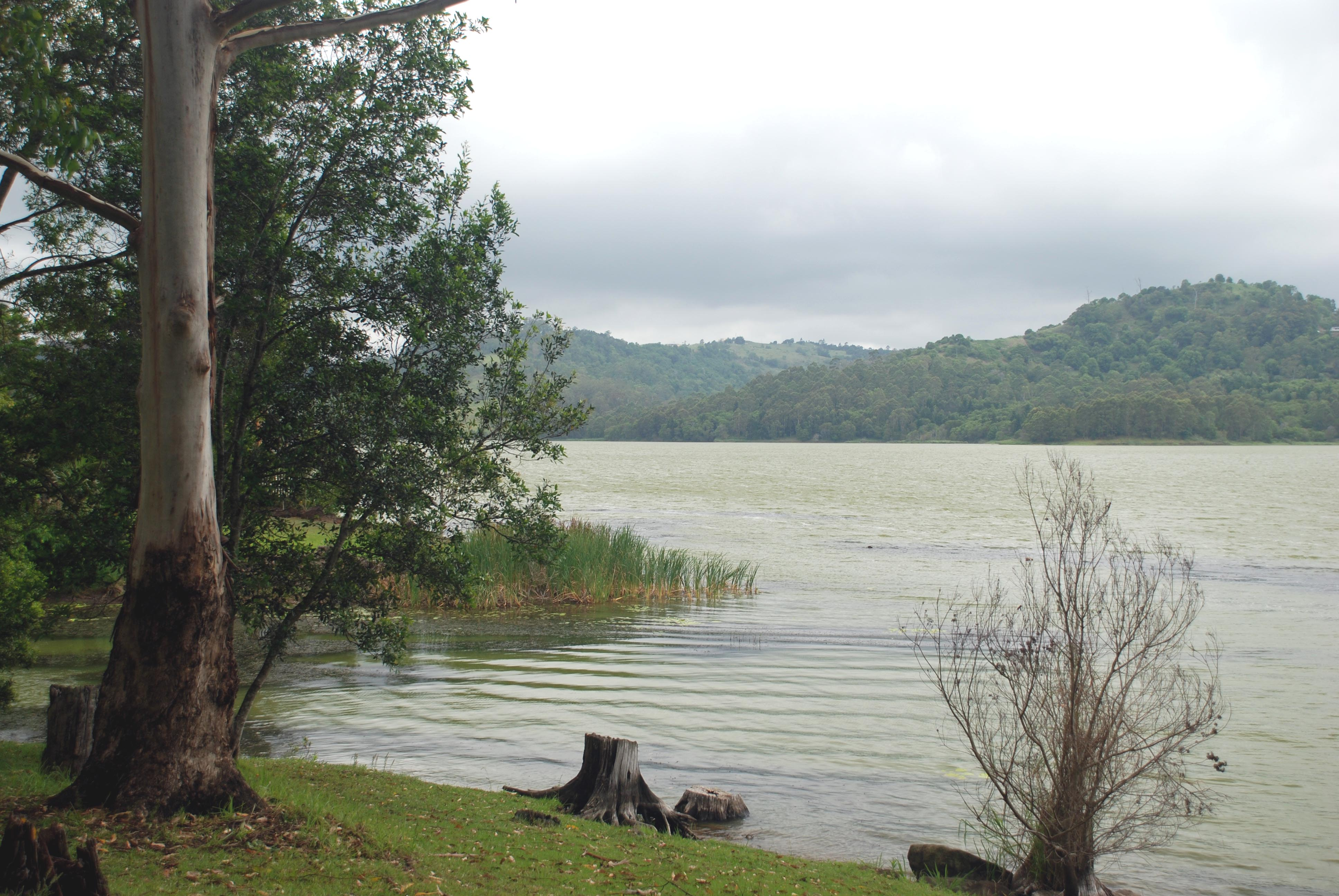 Sunshine Coast, Queensland - Lake Baroon